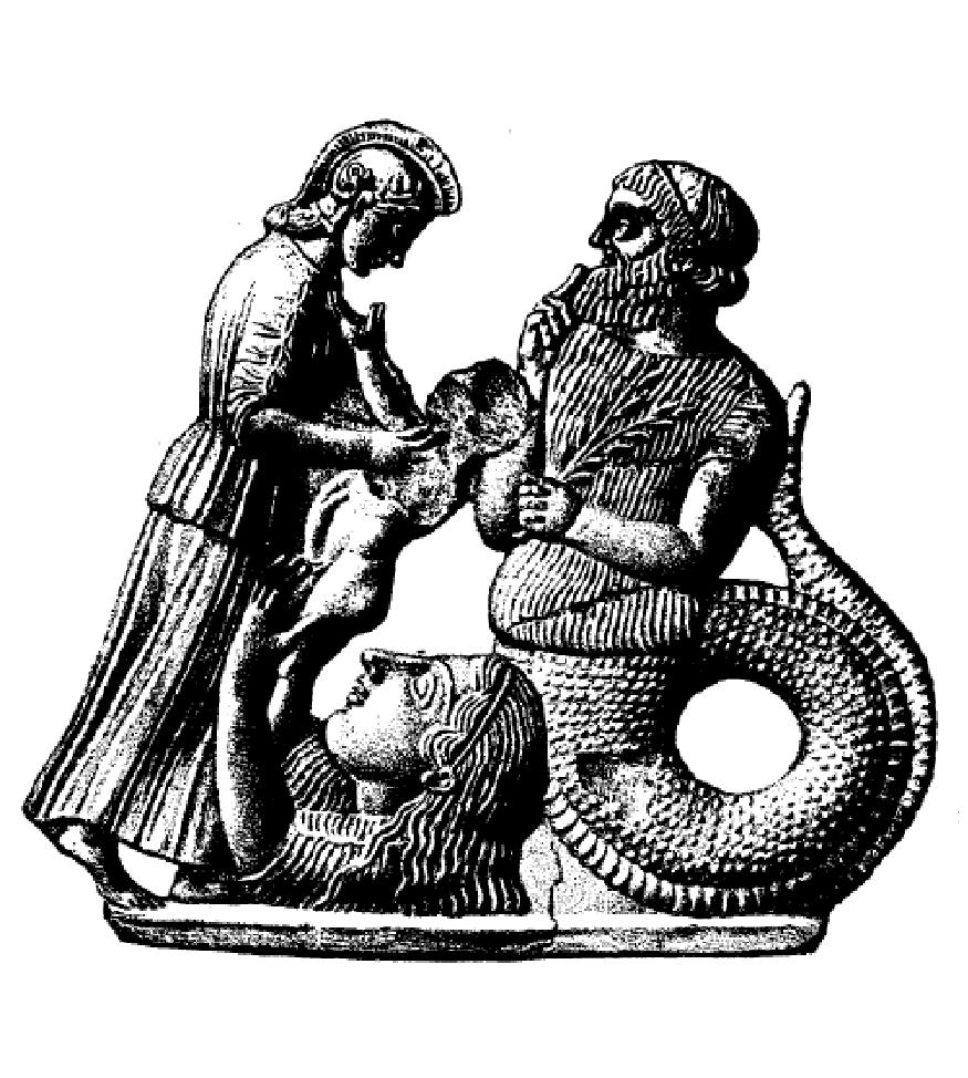 Melian clay relief, about 460 B.C. Gaia offers Erichthonios to Athena. On the right, Kekrops.